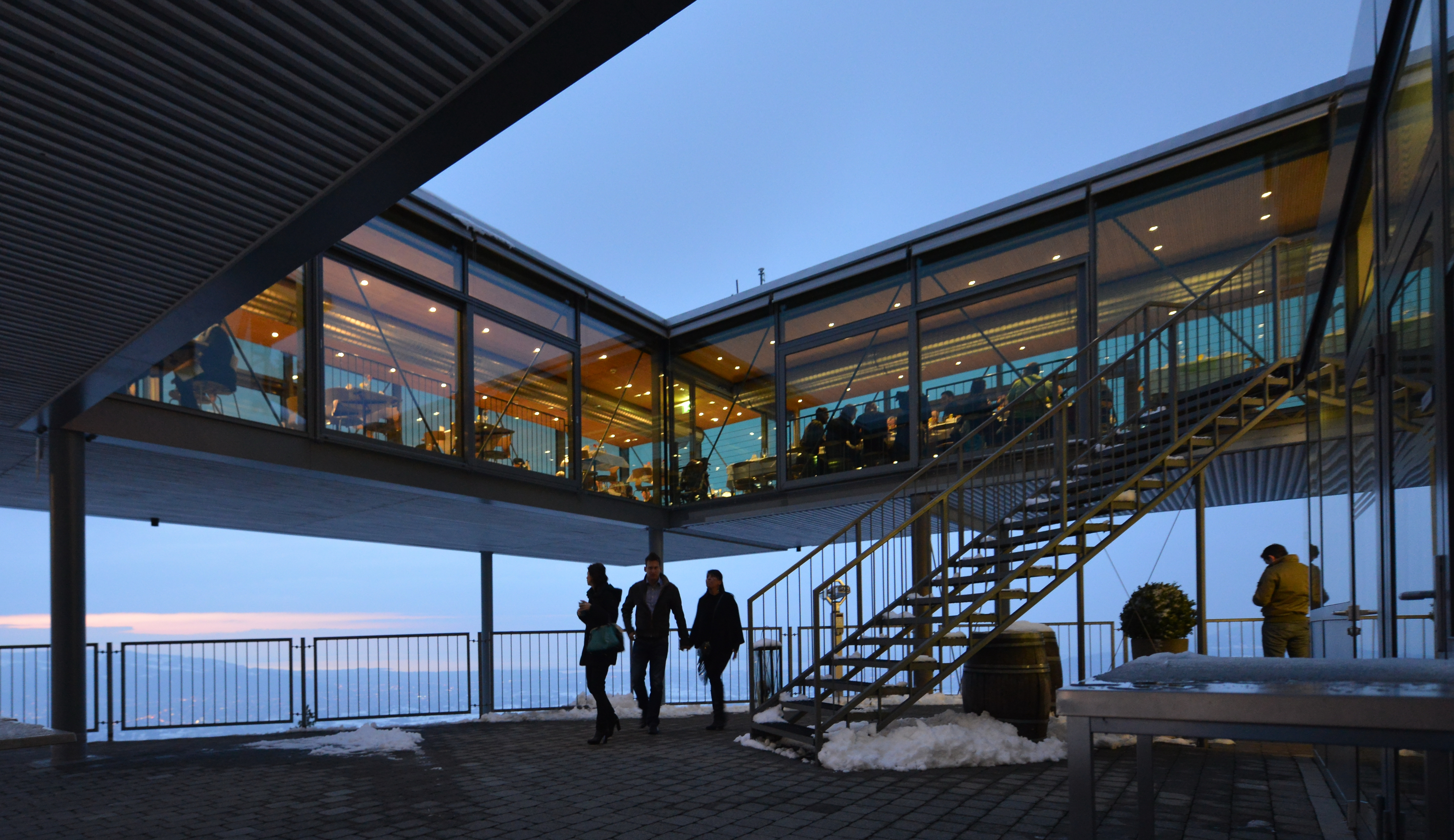 Cable-car: Karrenseilbahn in Dornbirn, Vorarlberg, Austria. Restaurant in the mountain station.